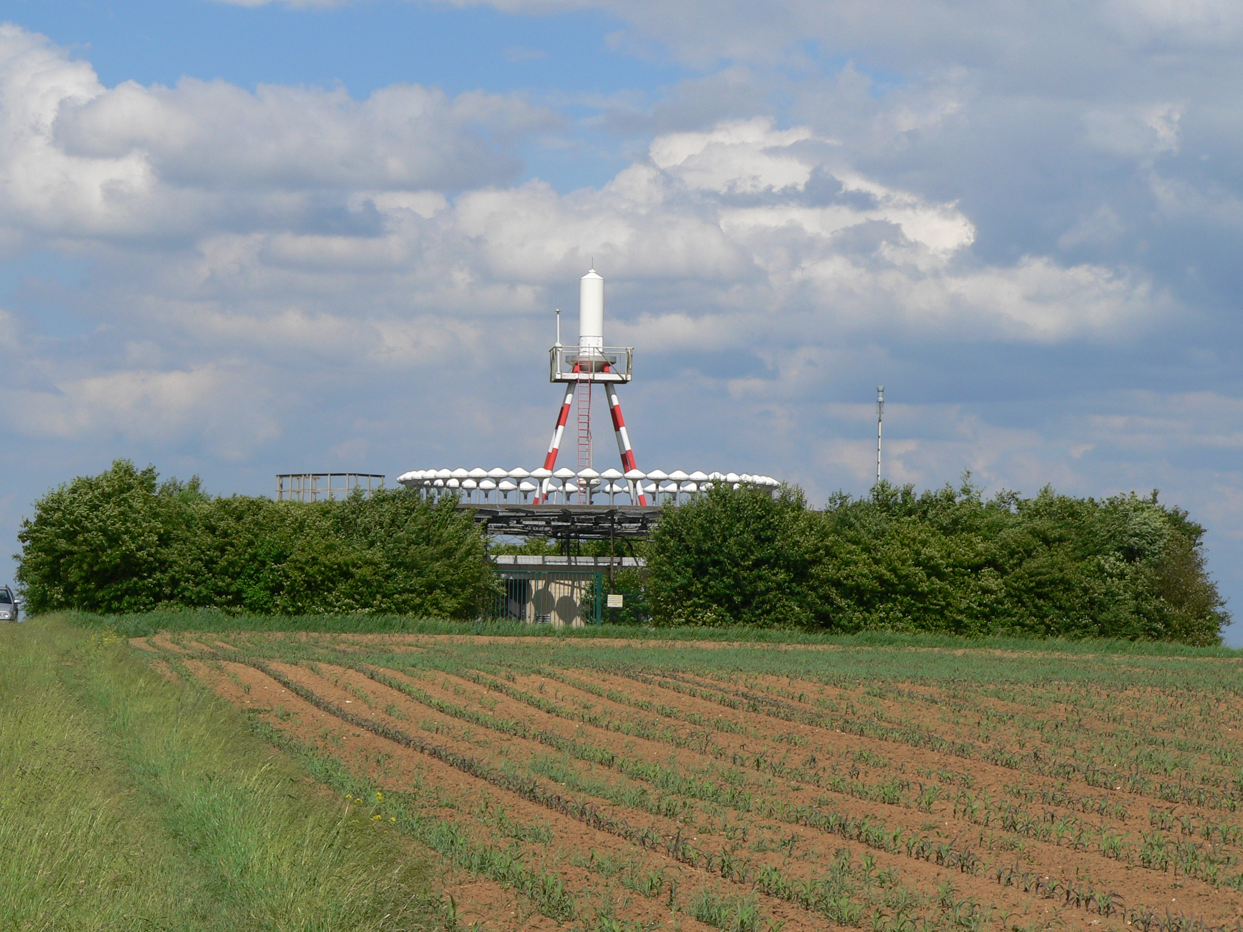 VORTAC TGO (TANGO, Germany) near Aichtal and Neckartailfingen, Germany. VOR, short for VHF Omni-directional Range, is a type of radio navigation system for aircraft. This system is a combination of a VOR-DME and a TACAN.